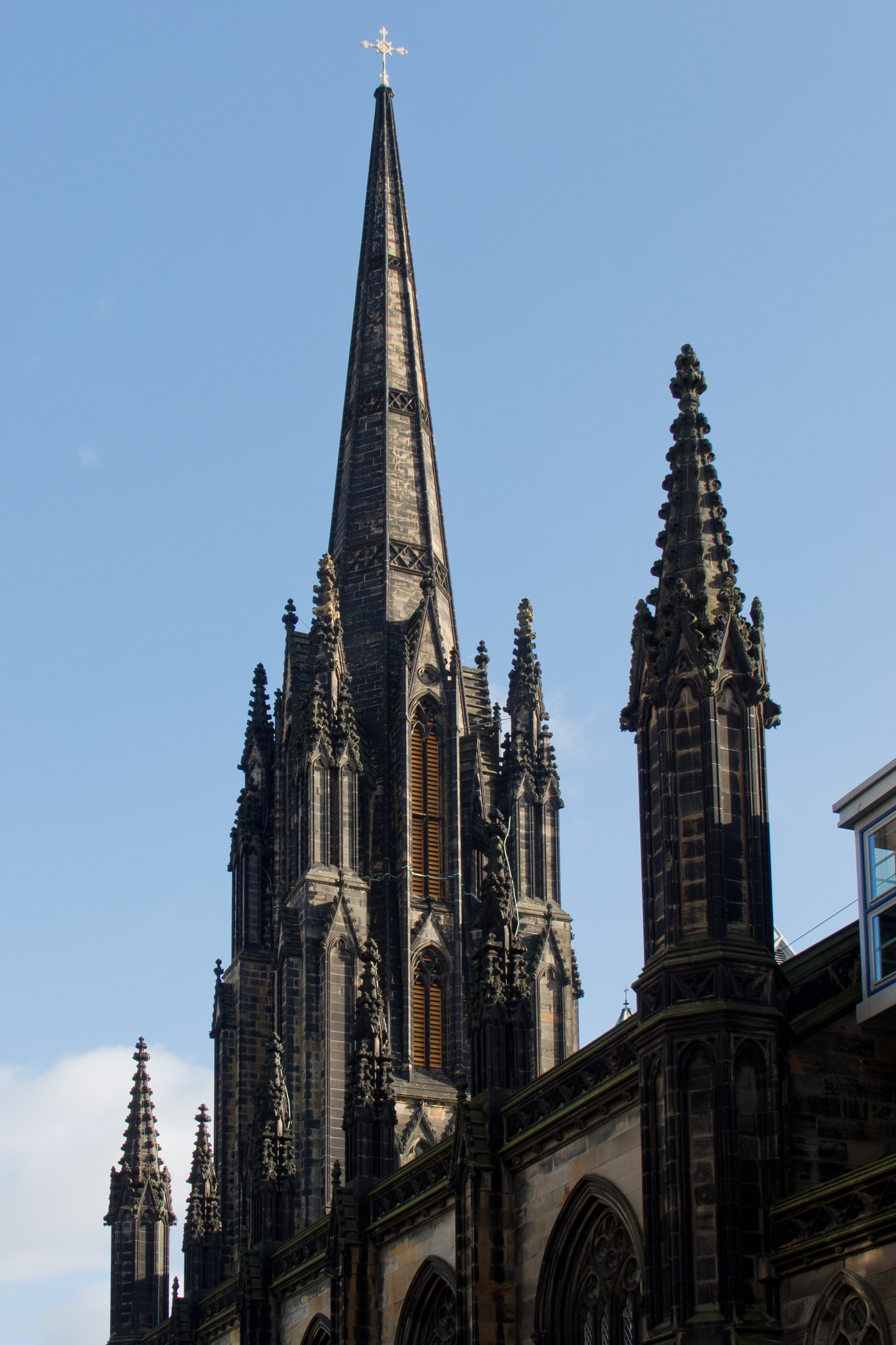 The Hub, Edinburgh, Scotland, UK. Wikidata has entry Q17570576 with data related to this building.